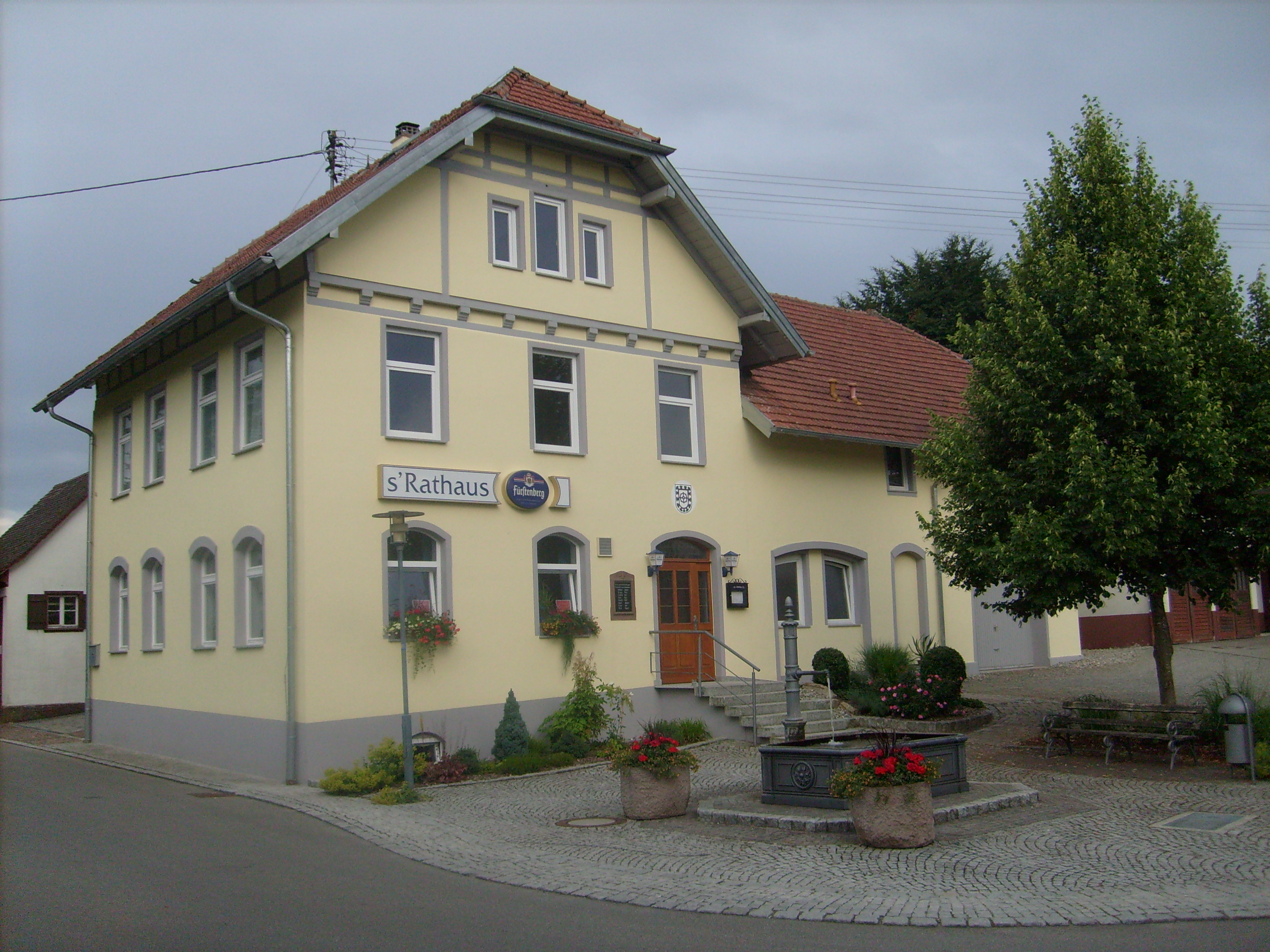 Seat of local government in Meßkirch-Schnerkingen, Germany